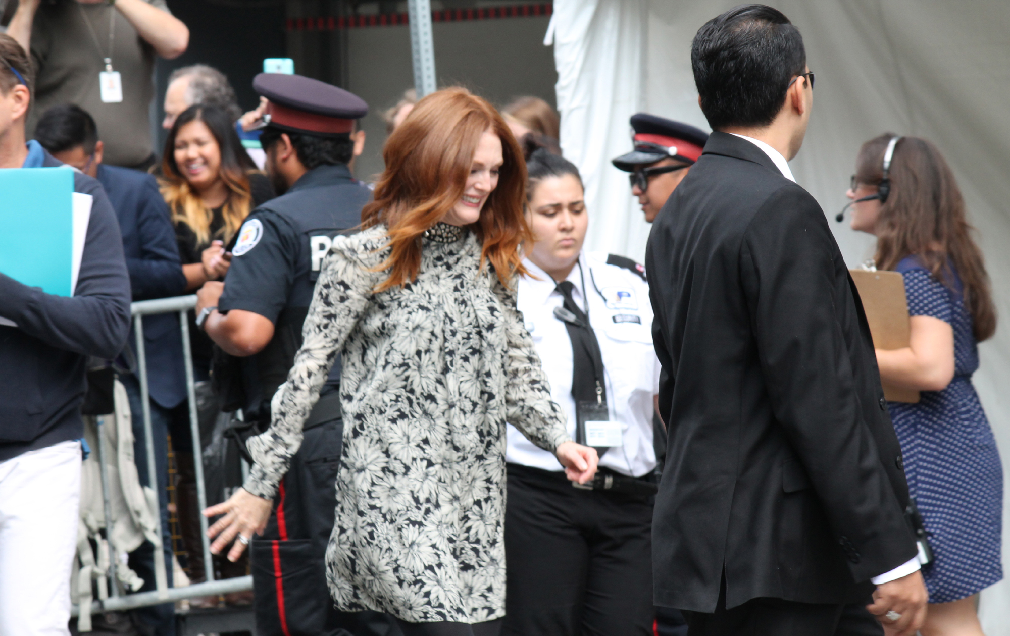 Actress Julianne Moore leaving a press conference at TIFF.